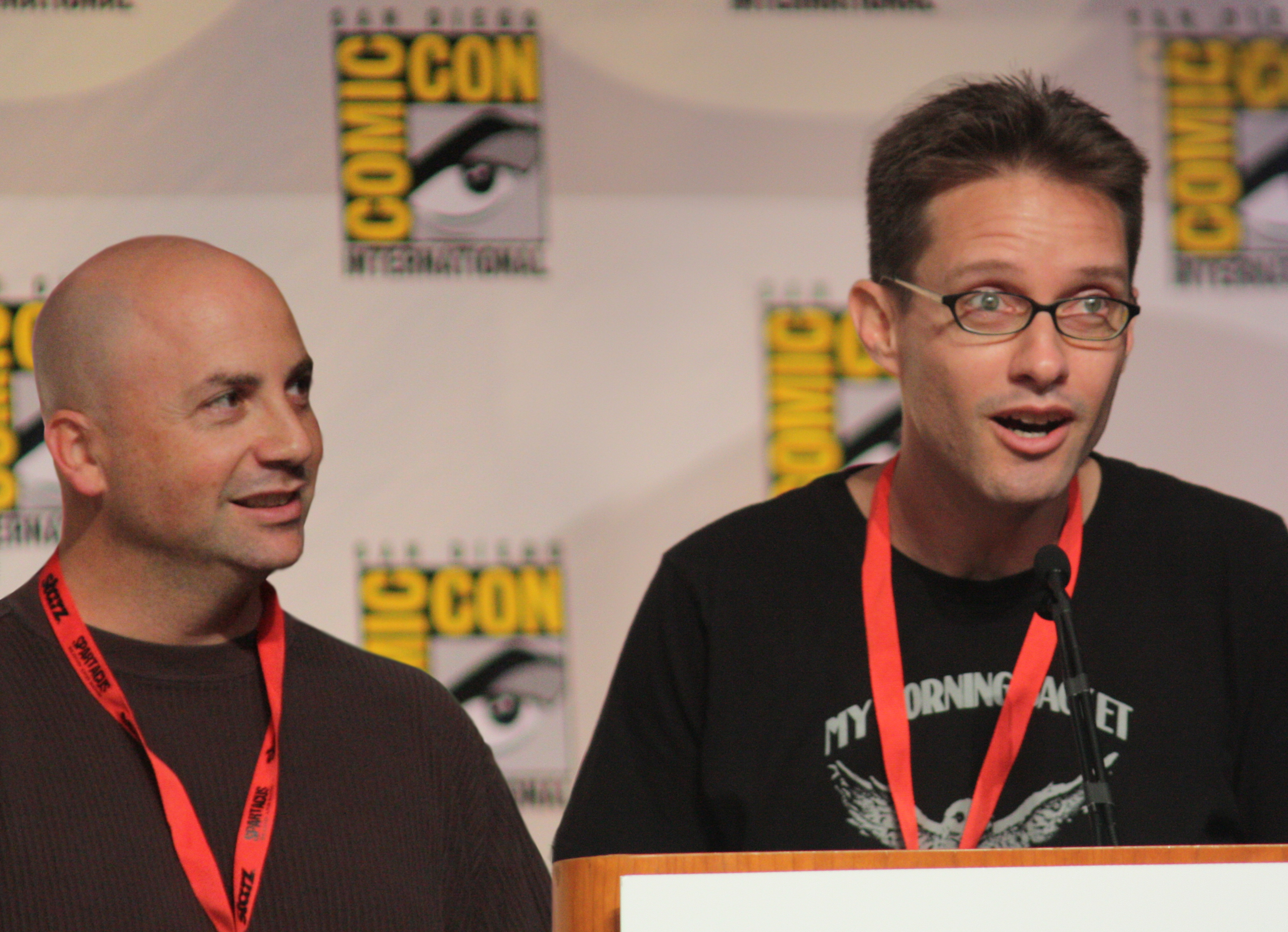 Mike Barker and Matt Weitzman at the 2009 Comic Con in San Diego.